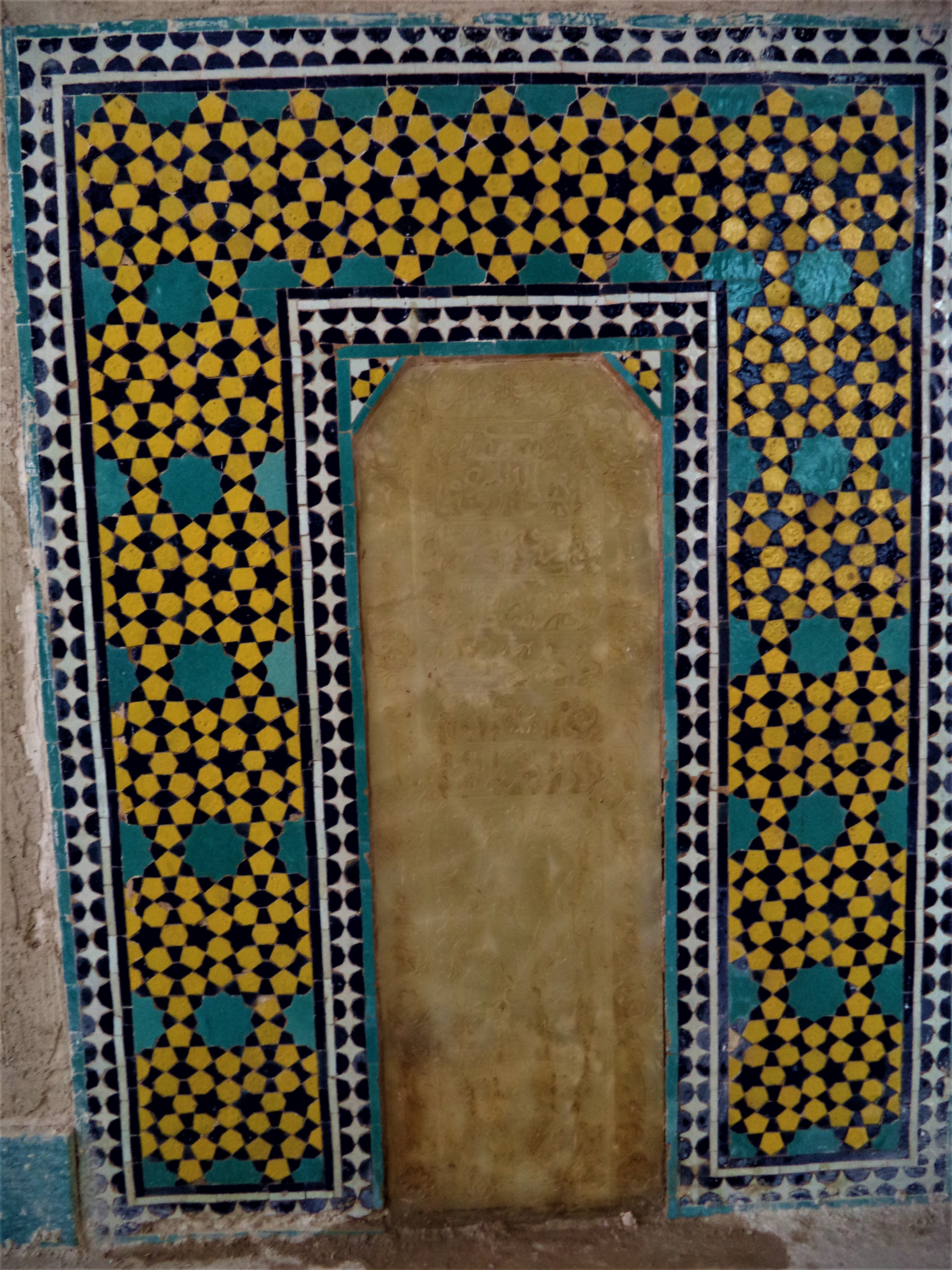 Gravestone of Gohar Soltan Beigom (? -1842/09/09) – (? -1258 A.H.), wife of Mirza Abdollah Sheikholeslam Location of Grave-site: Agha Hossein Khansari mausoleum, Takht-e Foulad Cemetery, Isfahan